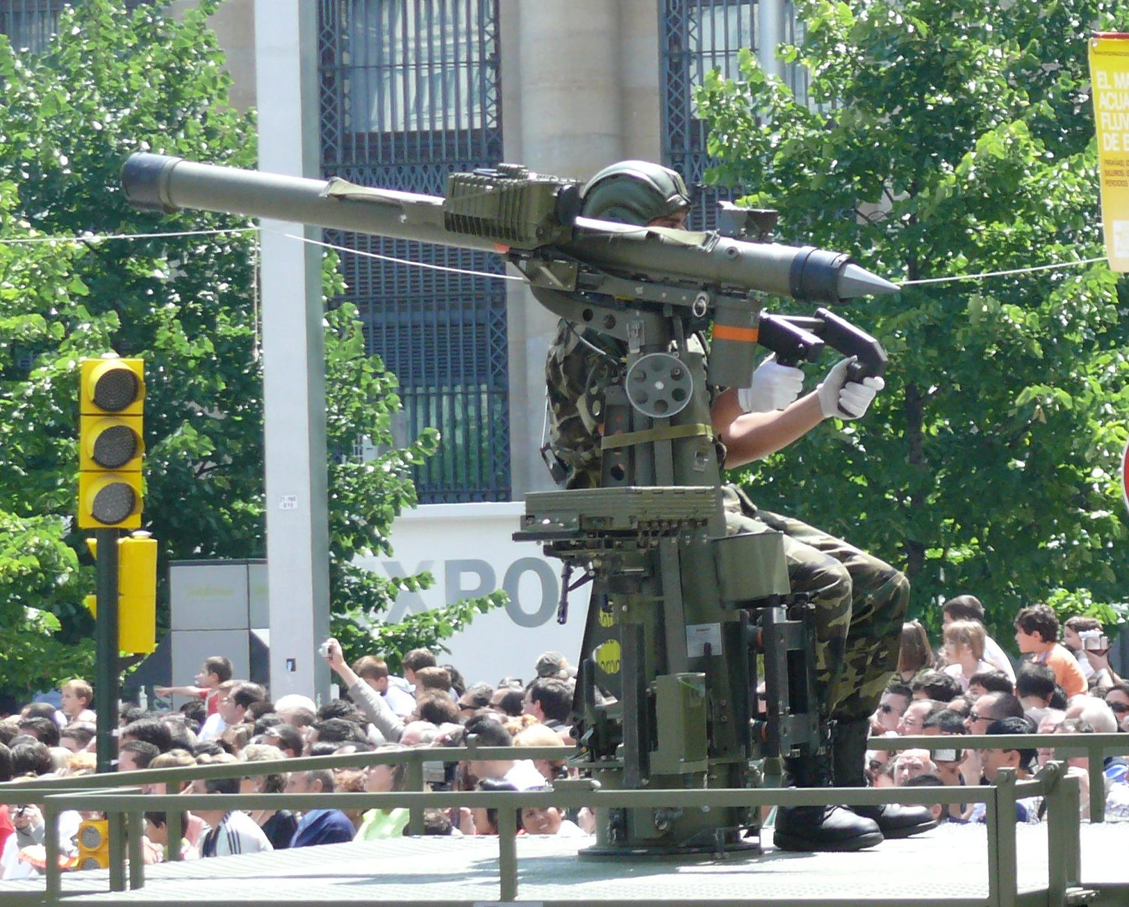 Mistral missile mounted in a URO VAMTAC vehicle of the Spanish Army. Zaragoza.